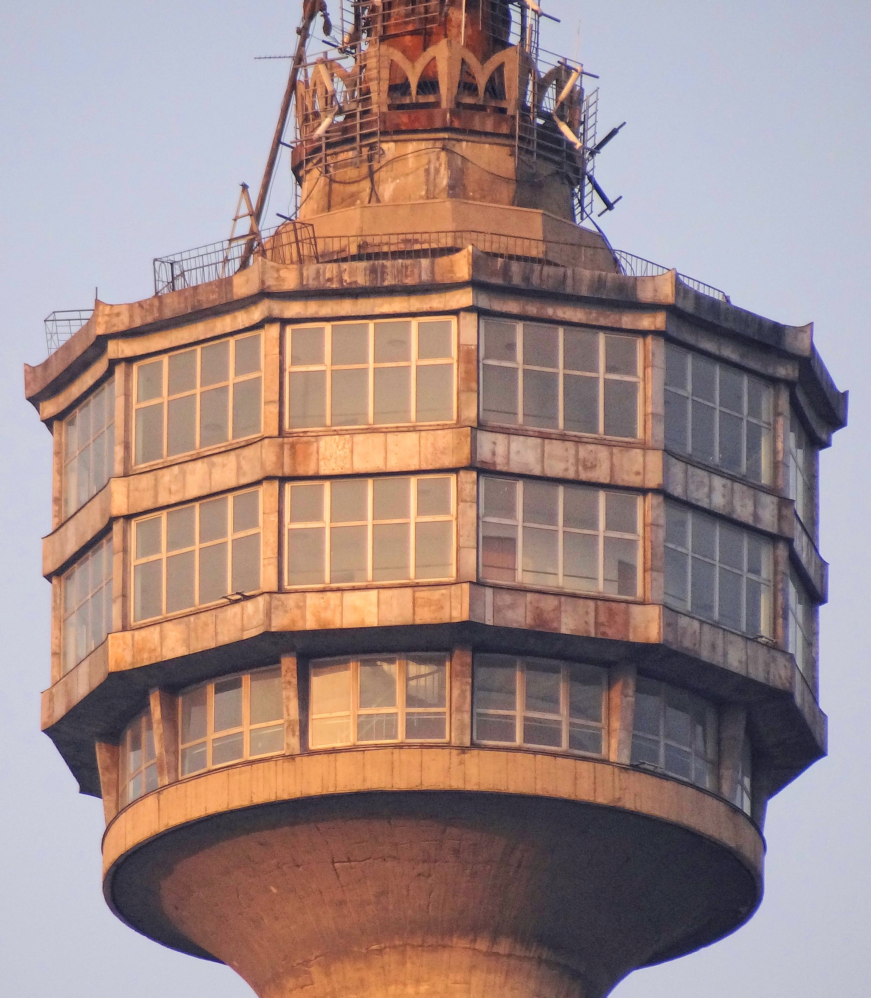 Close-up of the Pyongyang TV Tower photographed at sunset in March from the southwest, near the Arch of Triumph.